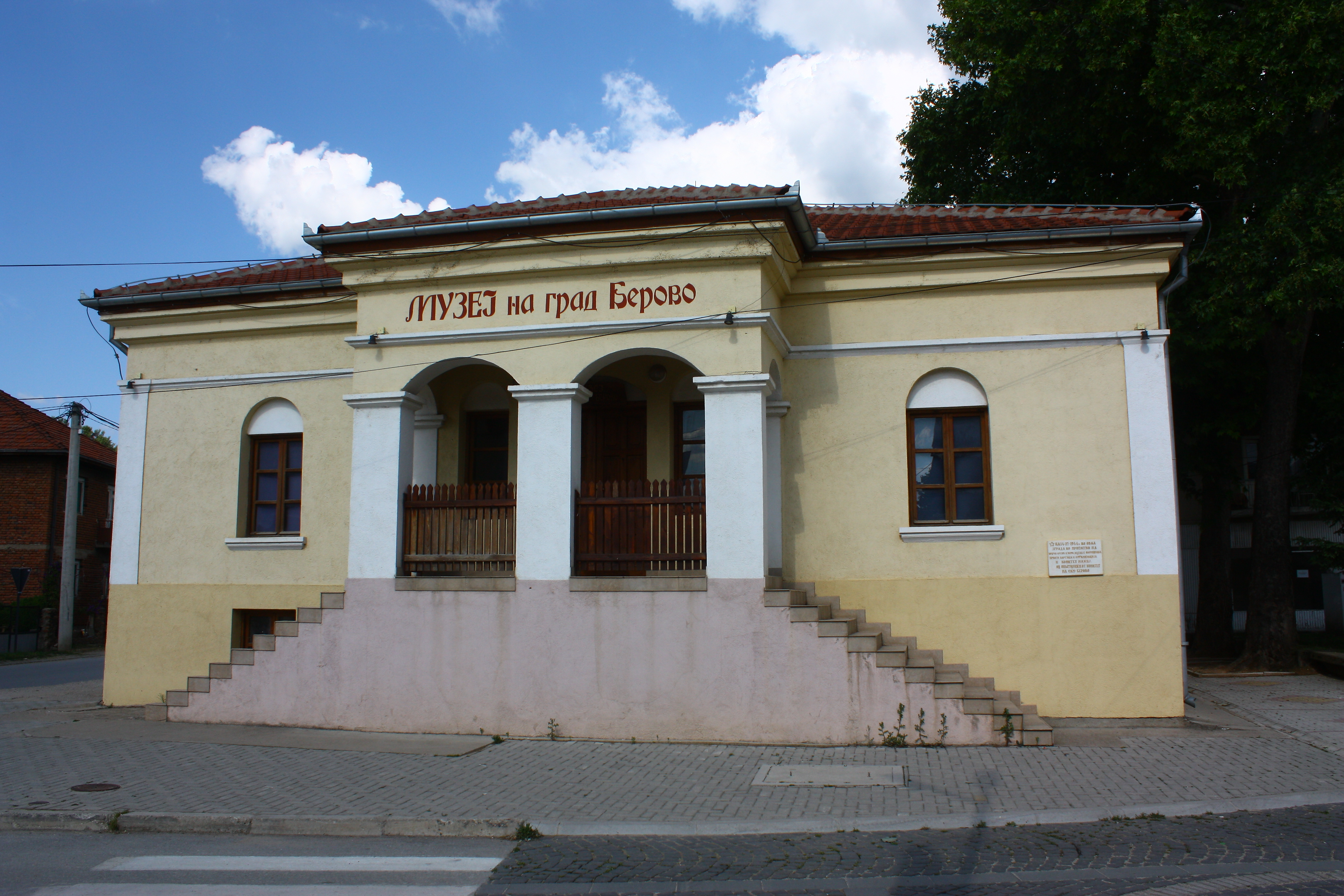 Berovo City Museum, Macedonia This image is uploaded as part of the picture contest Wiki Loves Cultural Heritage in Macedonia 2013. English | македонски | +/−